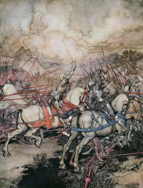 "How Arthur drew his sword Excalibur for the first time." From The Romance of King Arthur (1917). Abridged from Malory's Morte d'Arthur by Alfred W. Pollard. Illustrated by Arthur Rackham. This edition was published in 1920 by Macmillan in New York.